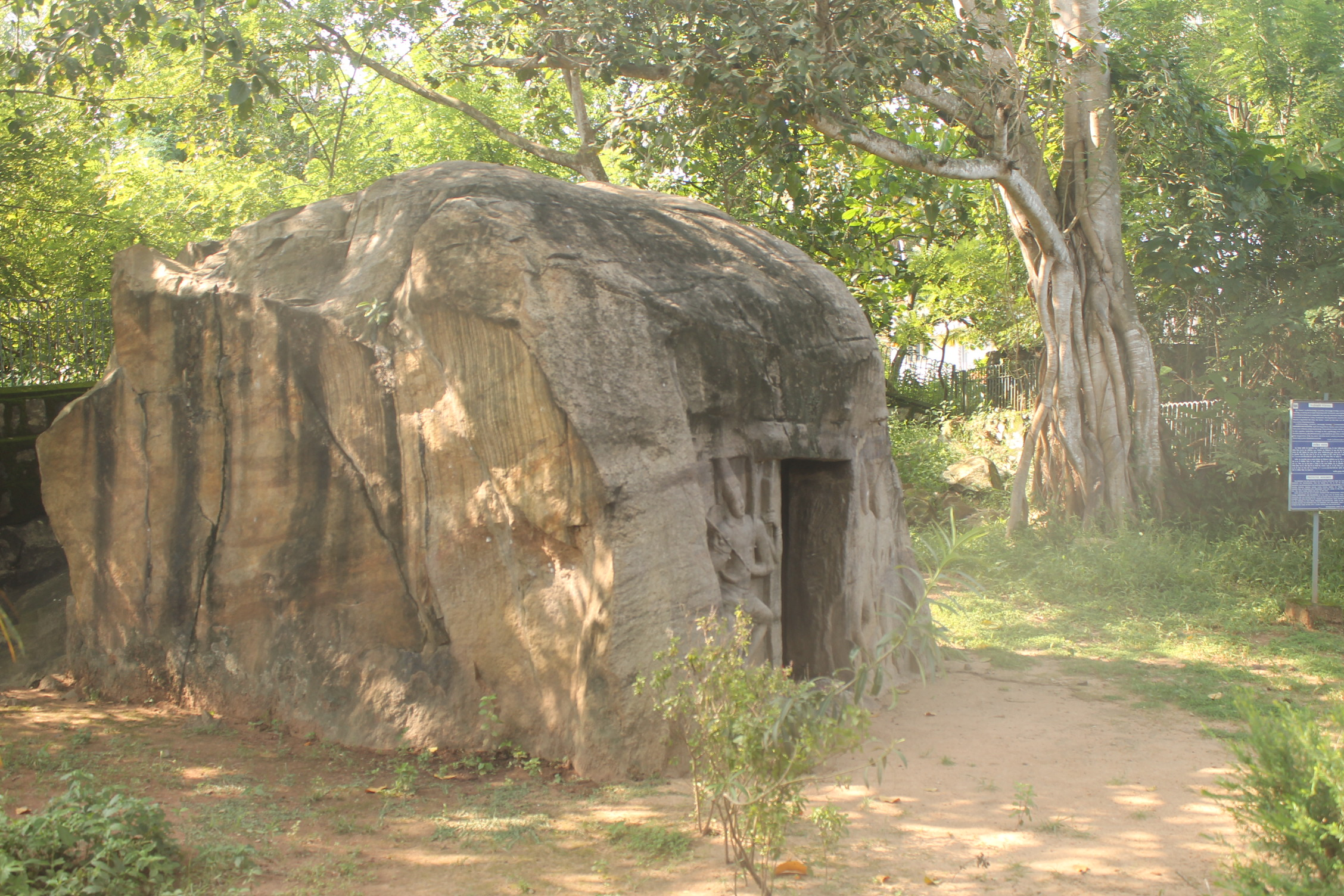 vizhinjam cave temple. external view